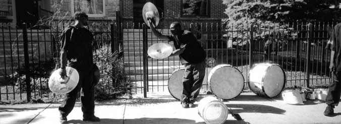 Jules Allen Photograph; Marching Bands, 2006